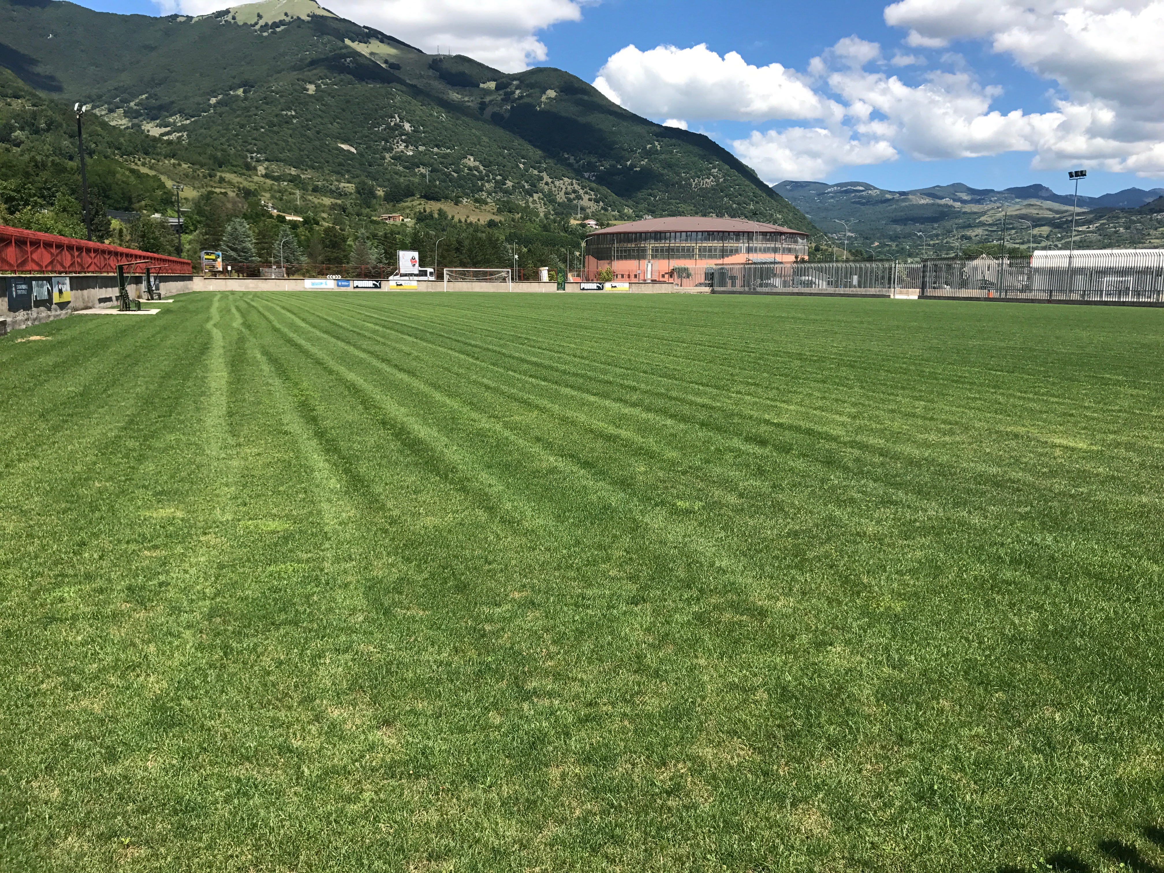 Field C Patini Stadium